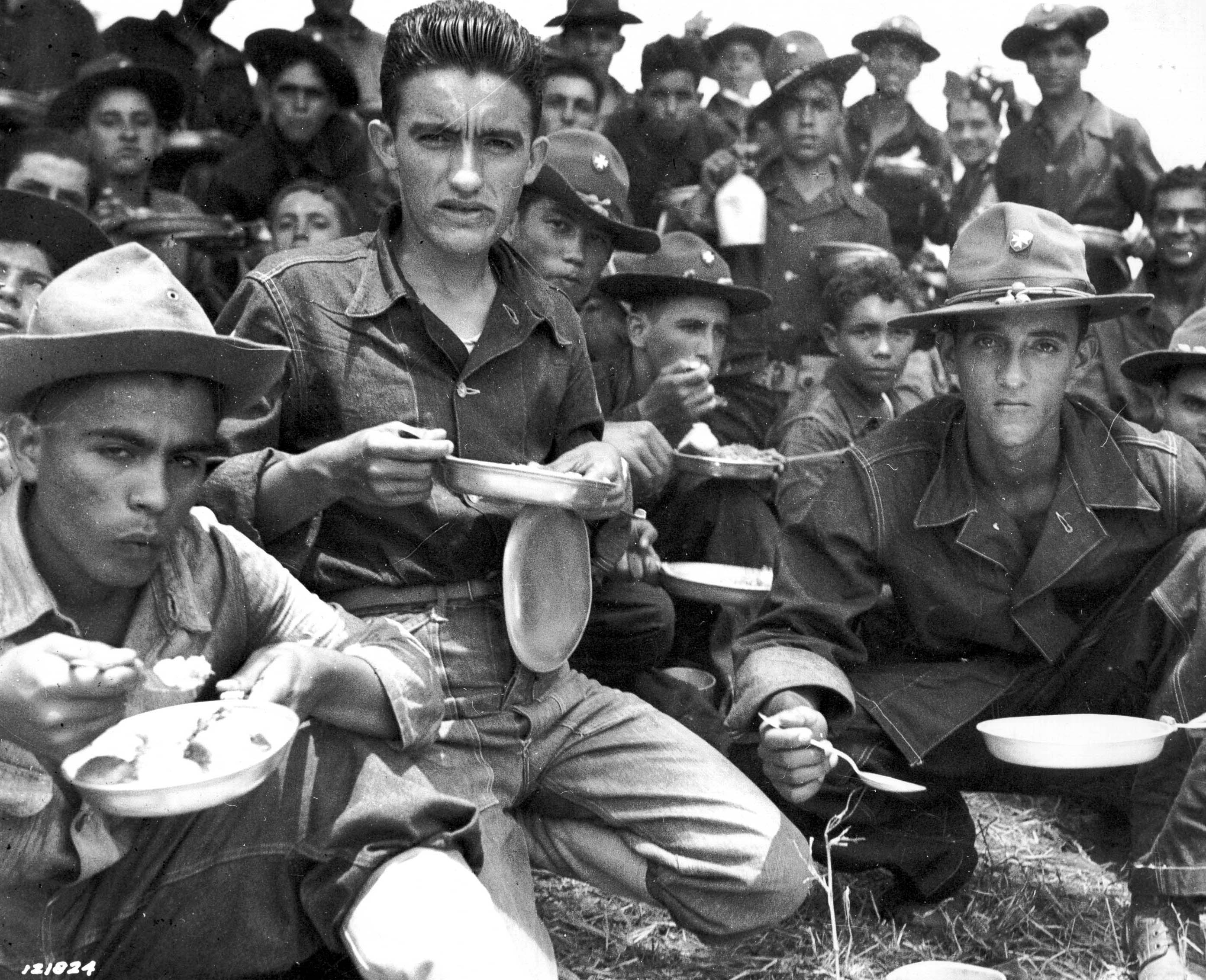 Soldiers of 65th Infantry after an all day schedule of maneuvers at Salinas, Puerto Rico. August 1941.